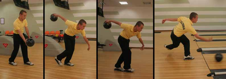 bowling